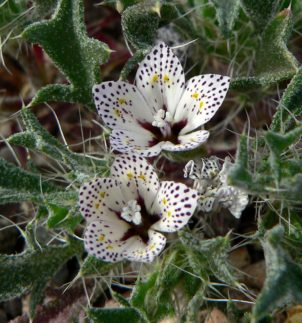 Langloisia setosissima subsp. punctata (lilac sunbonnets) near route 178, two miles east of Jubilee Pass, Death Valley National Park